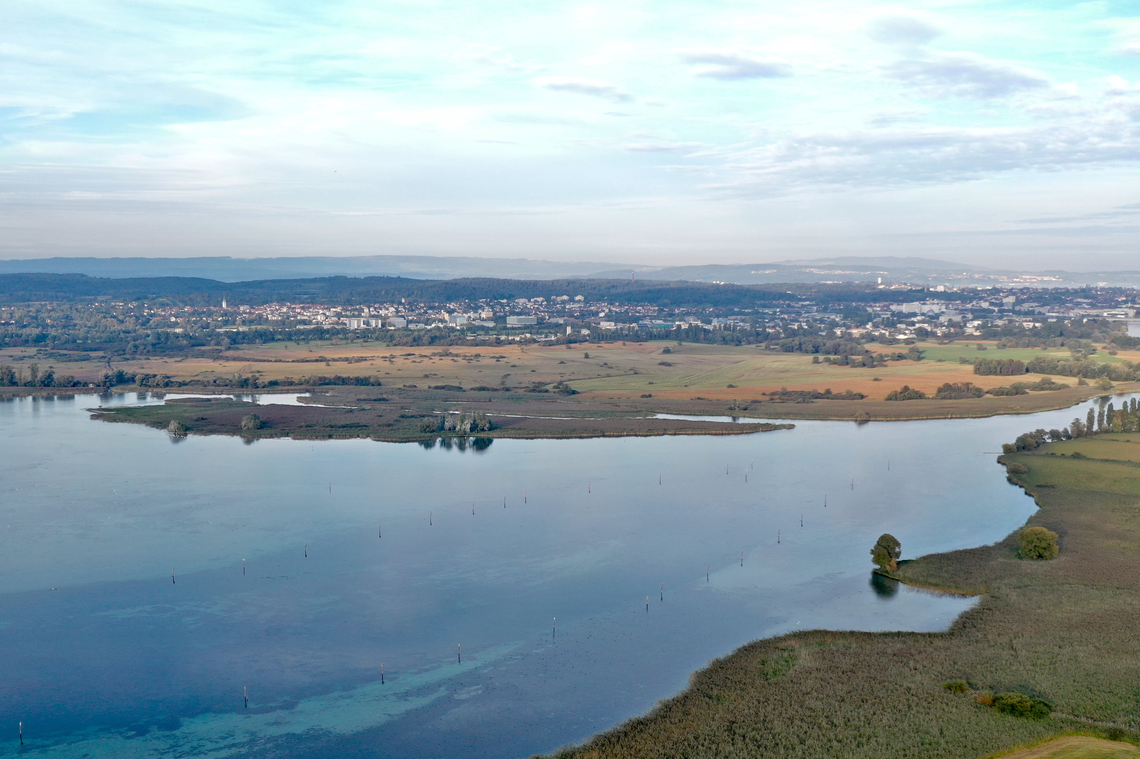 default